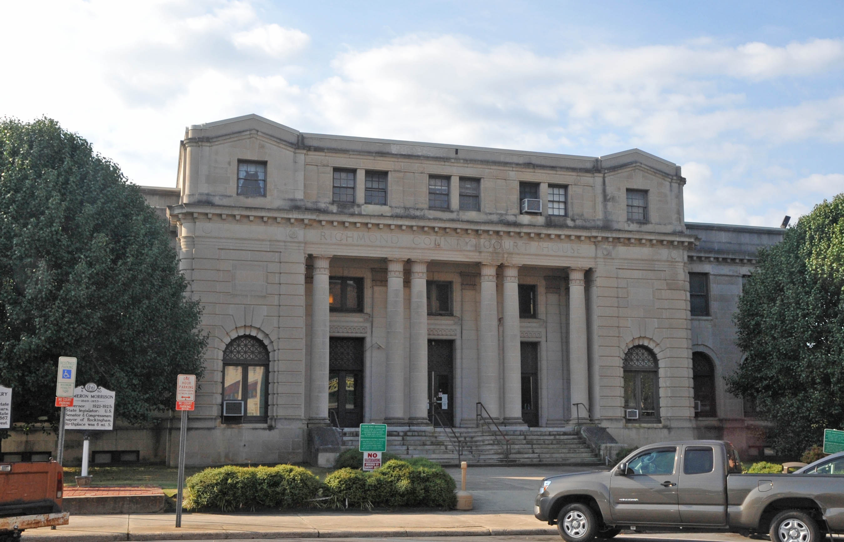 1922-1923; VICTORIAN RENAISSANCE